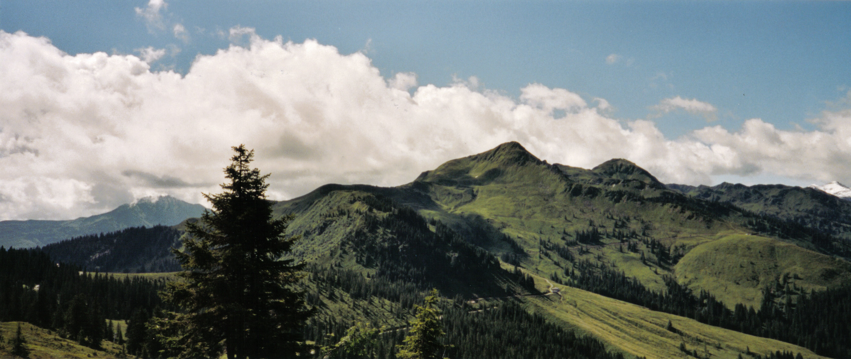 The ridge of the Brechhorn seen from north (Austrian Alps).